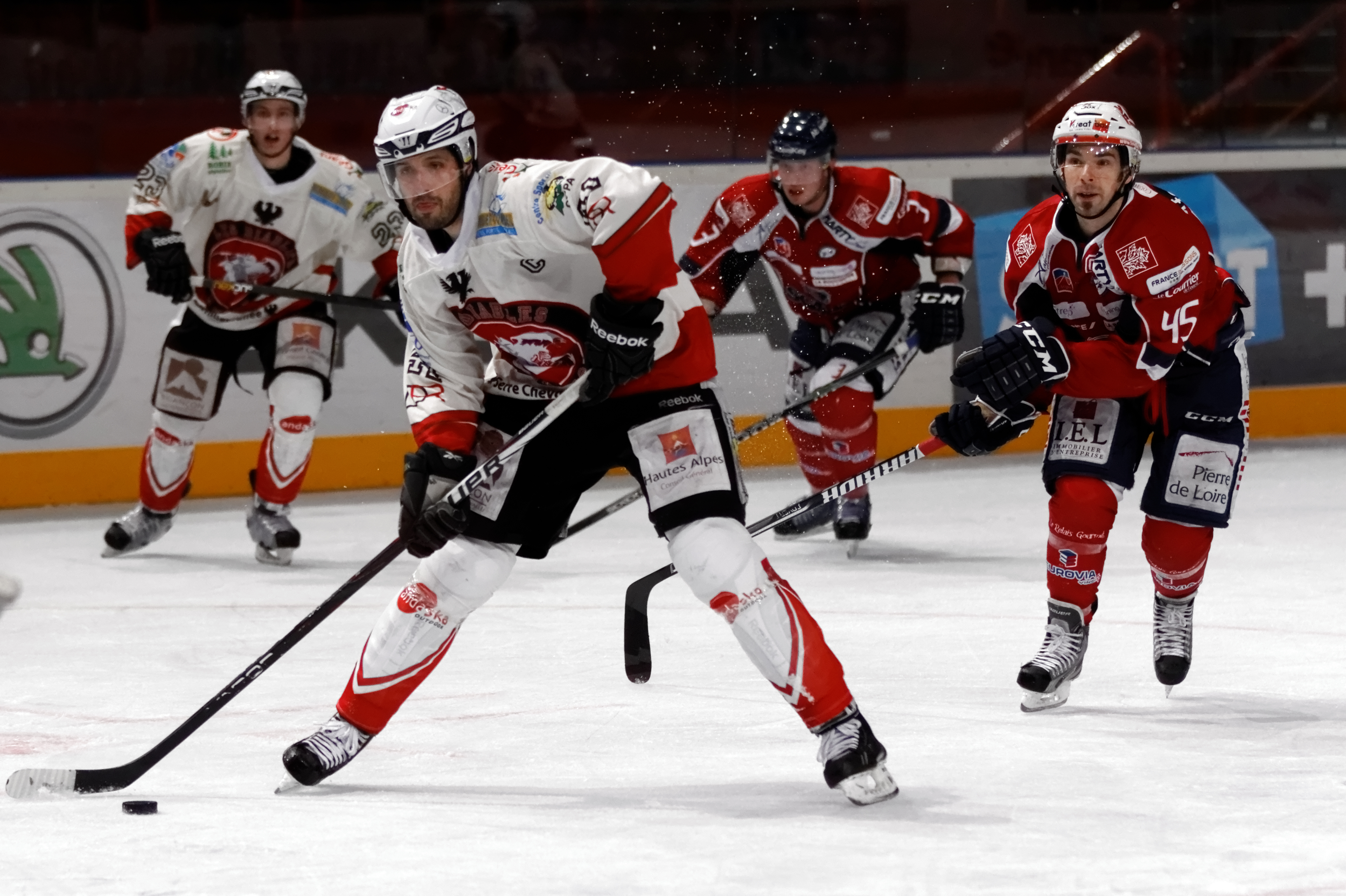 Final of the Ice Hockey French Cup 2013.